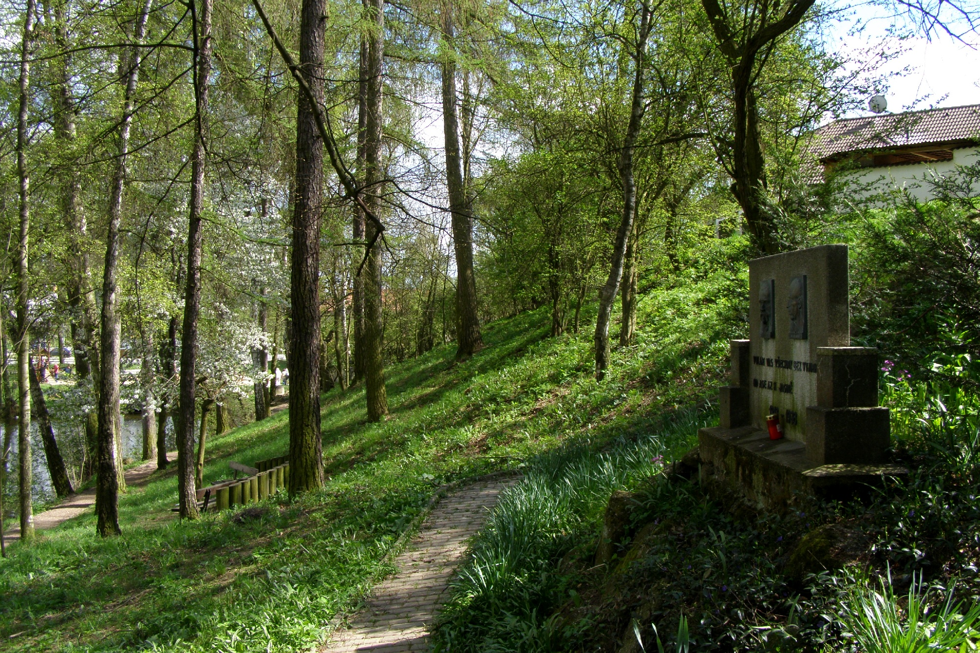 Třebíč-Týn. Jubilee park. Established 1938. There is a plaque with pictures of T. G. Masaryk and E. Beneš, Czechoslovak presidents, and a quotation „I call you all, from Aš to Jasina; 1918–1938“ (in Czech) in the middle of the park